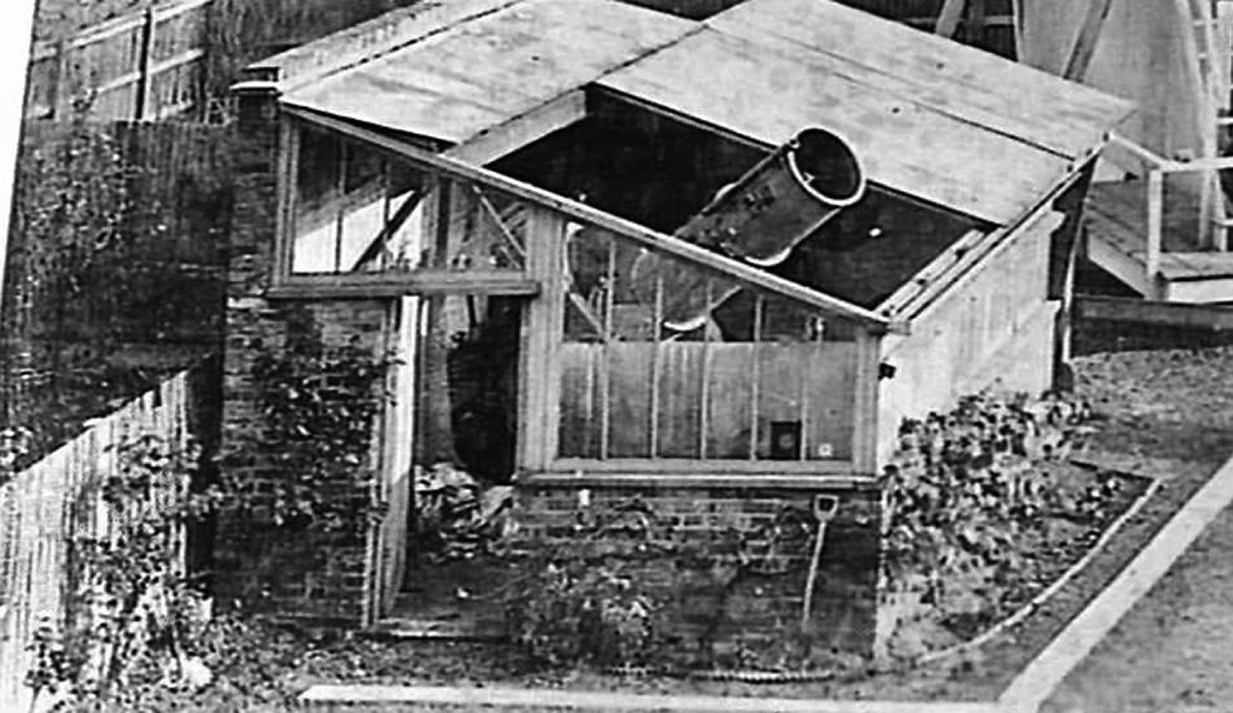 18 inch (46cm) Newtonian reflector telescope erected by British astronomer Andrew Ainslie Common in his garden shed around 1876 at his house in Ealing, near London, England.